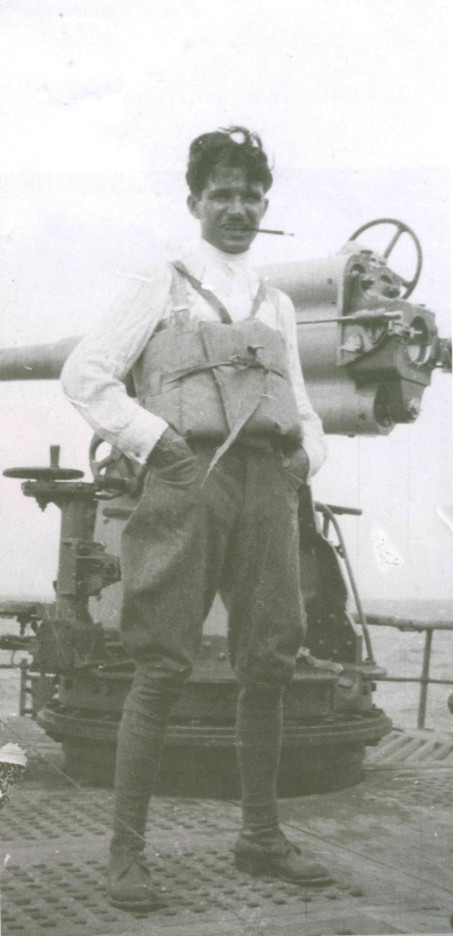 Mario Alberto Ponis onboard cruiser from Albania to Italy. End of World War I, 1918